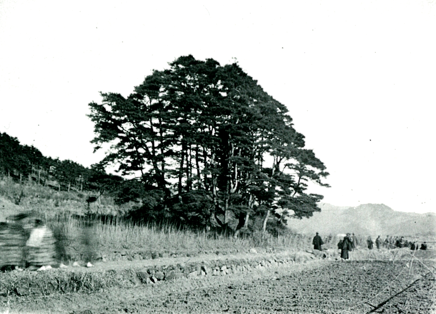 Manjumori ancient burial mound in 1910 's in Kōfu, Yamanashi, Japan